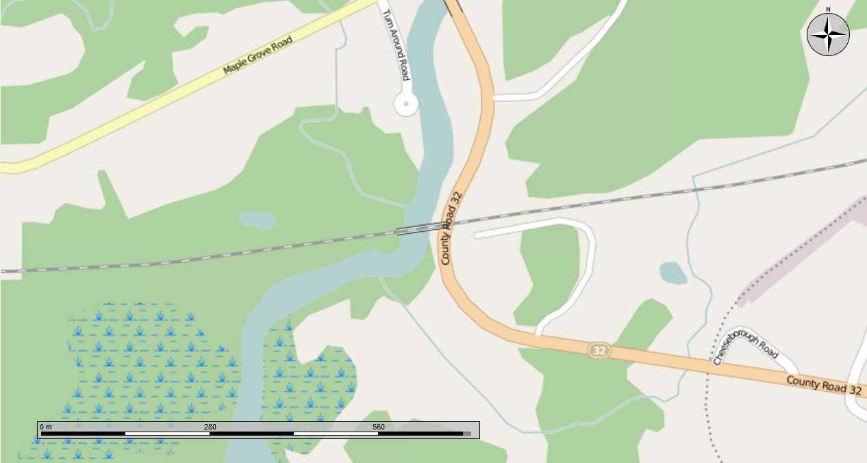 Map showing the Gananoque River Bridge, a rail bridge on the CR Railway's Kingston subdivision. It crosses the Gananoque River. 44.3595556,-76.1900556 Open Street Map overlay from the Marble program.